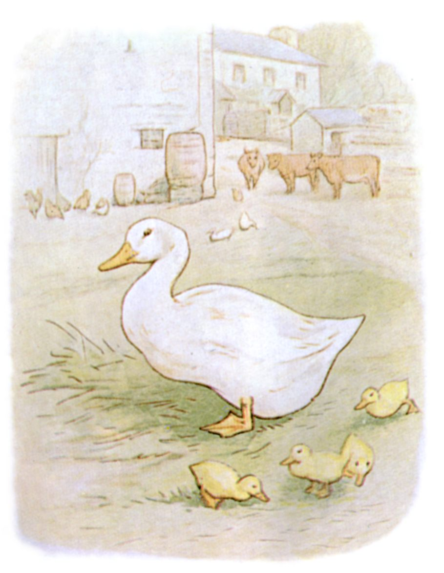 Illustration from children's book The Tale of Jemima Puddle-Duck